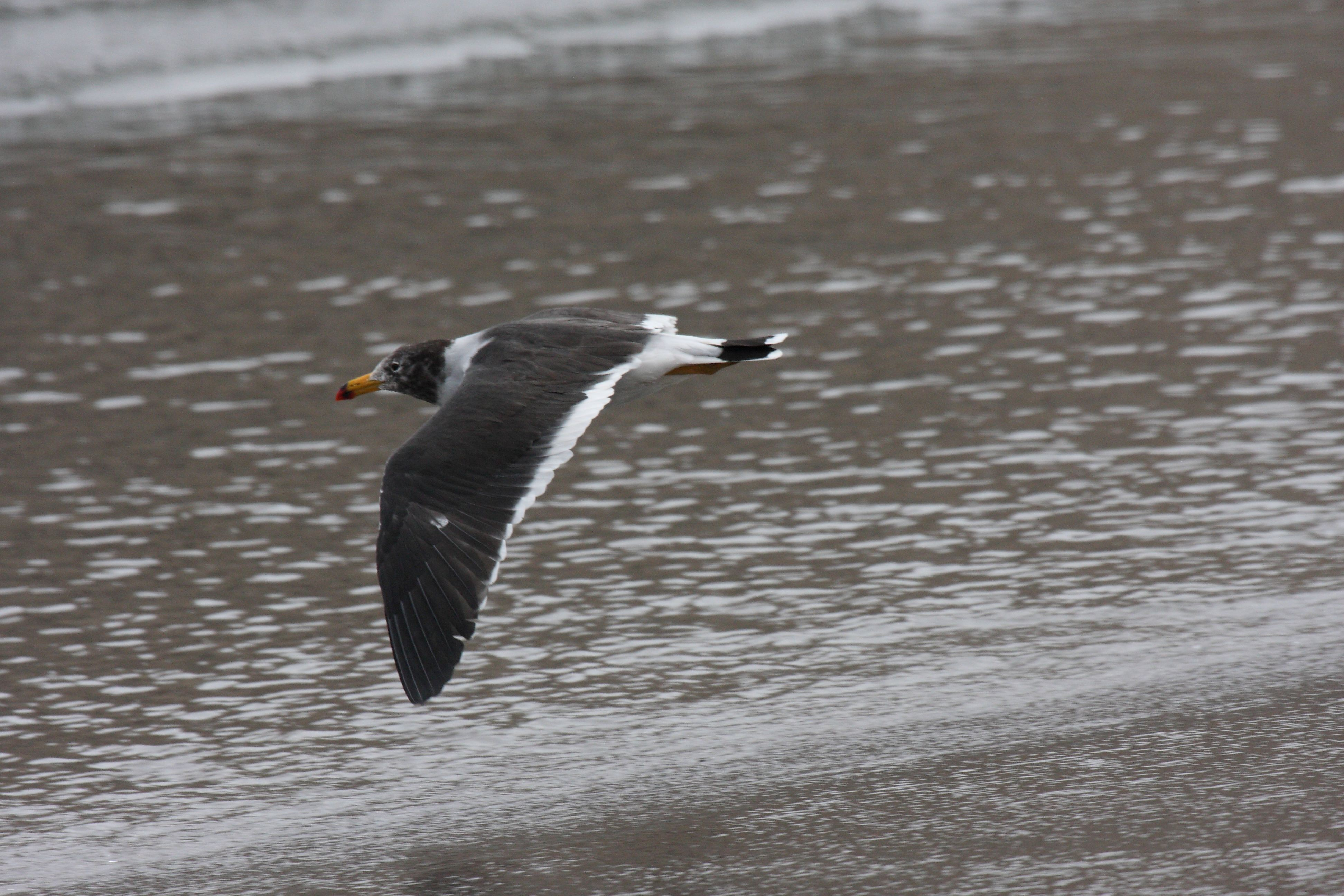 Photographed at Puerto Viejo, Peru.